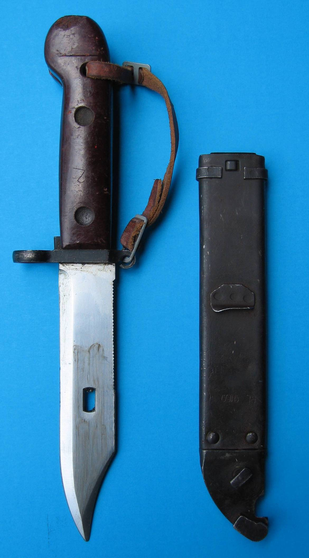 Saddam era Iraqi military AKM bayonet and sheath was obtained in 2004 during Operation IRAQI FREEDOM. The open slot midway down the blade fits into the stud on the bayonet sheath to serve as wire cutter.